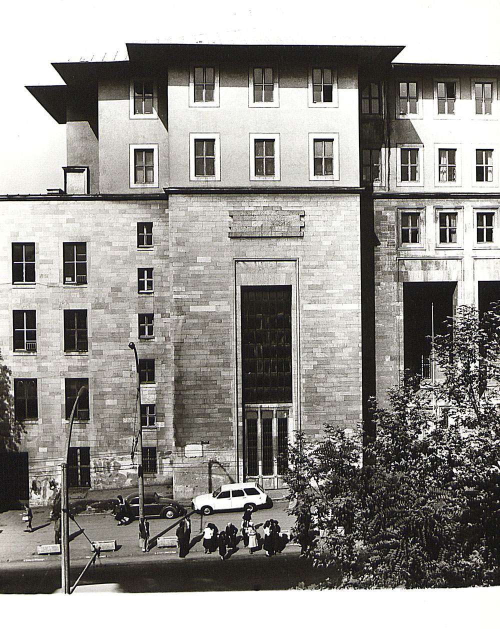 After the İstanbul Darülfünun was converted to İstanbul University, following the University Reform on May 31, 1933, the faculties of Science and Literature began to educate their pupils from a new perspective. Initially the faculties’ institutions were located in several places including Sultanahmet, Çemberlitaş, Galatasaray and also Zeynep Hanım Mansion in Beyazıt. After one of these mansions burned down, a new building, designed collaboratively by Emin Onat and Sedad Hakkı Eldem, was built as one monumental structure comprising inner courtyards surrounded by rectangular blocks. Completed in 1952, this singular entity reflected the giant massive morphology of German Nazi Architecture, as was the trend of the day. On the other hand characteristics of civil Ottoman architecture could be seen in the building’s window rhythms, plans and in details like canopies. Today the building continues to be used by the İstanbul University faculties of Science and Literature. SALT Research & Rahmi M. Koç Archive, Sedad Hakkı Eldem Archive İstanbul’daki ilk fen ve edebiyat fakülteleri, 1933 tarihli Üniversite Reformu’nda Darülfünun’un İstanbul Üniversitesi adını almasıyla bugünkü şekliyle eğitime başladı. Kurumlar, Sultanahmet, Çemberlitaş ve Galatasaray’ın yanı sıra Beyazıt’taki Zeynep Hanım Konağı’nda faaliyet gösteriyordu. 1942’de konağın yanmasıyla yeni bina ihtiyacı doğdu. Sedad Hakkı Eldem ve Emin Onat ortaklığında her iki fakülte için tasarlanan bina 1952’de tamamlandı. Büyük orta avluları çevreleyen dikdörtgen bloklardan oluşan bu bina, dönemin akımı olan Alman Nazi mimarisinin dev masif kütle çözümlerini yansıtır. Saçak ve silme gibi detaylar ile pencere düzenleri ve plan şemalarında ise, geleneksel Osmanlı konut mimarisinin biçimlenmeleri gözlenir. Günümüzde hâlen bu fakültelere ev sahipliği yapmaktadır. SALT Araştırma & Rahmi M. Koç Arşivi, Sedad Hakkı Eldem Arşivi